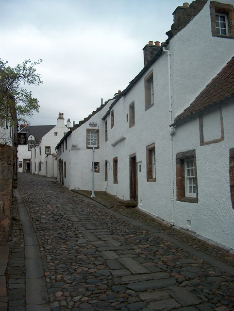 Culross